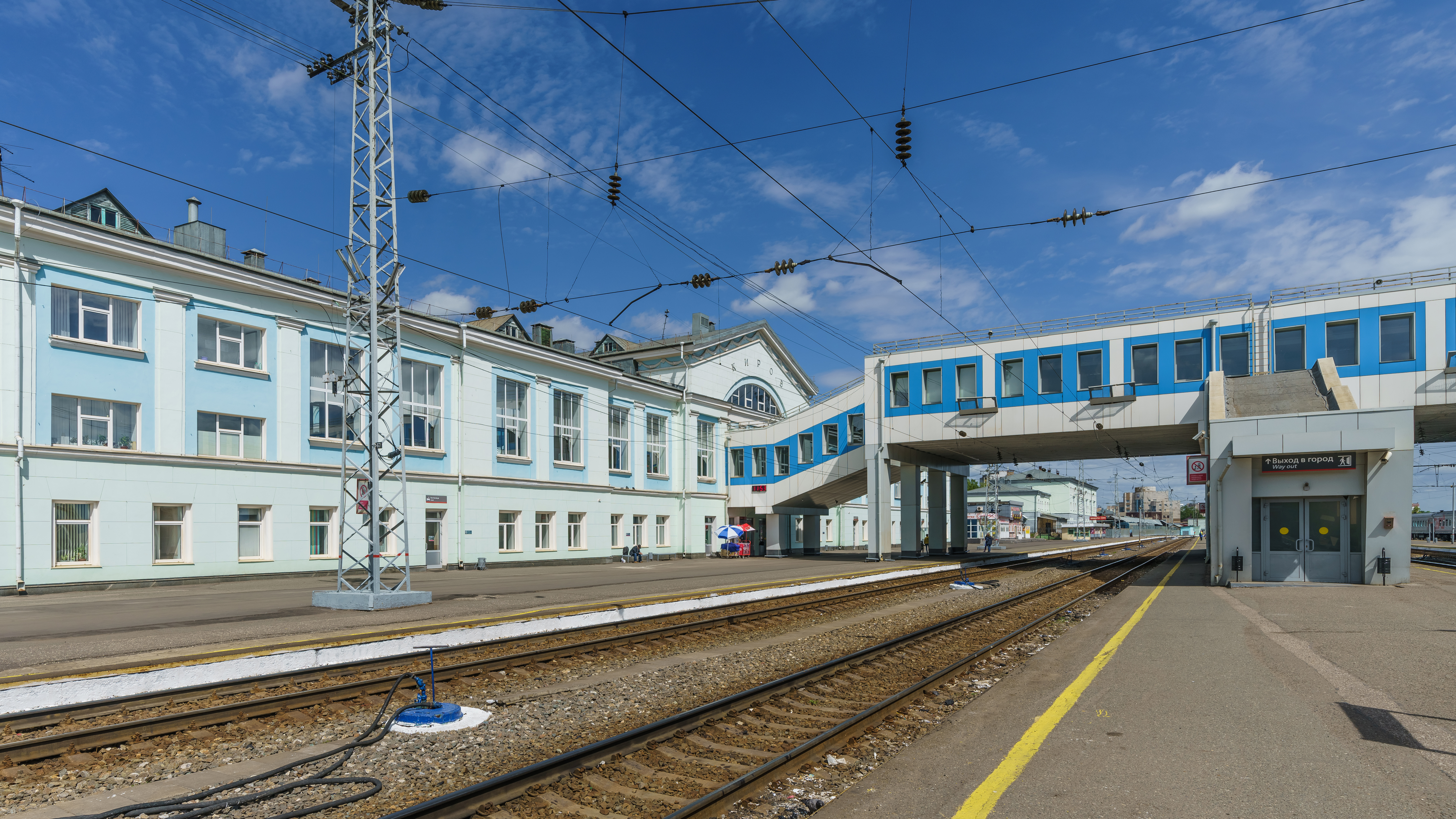 Main railway station in Kirov, Russia